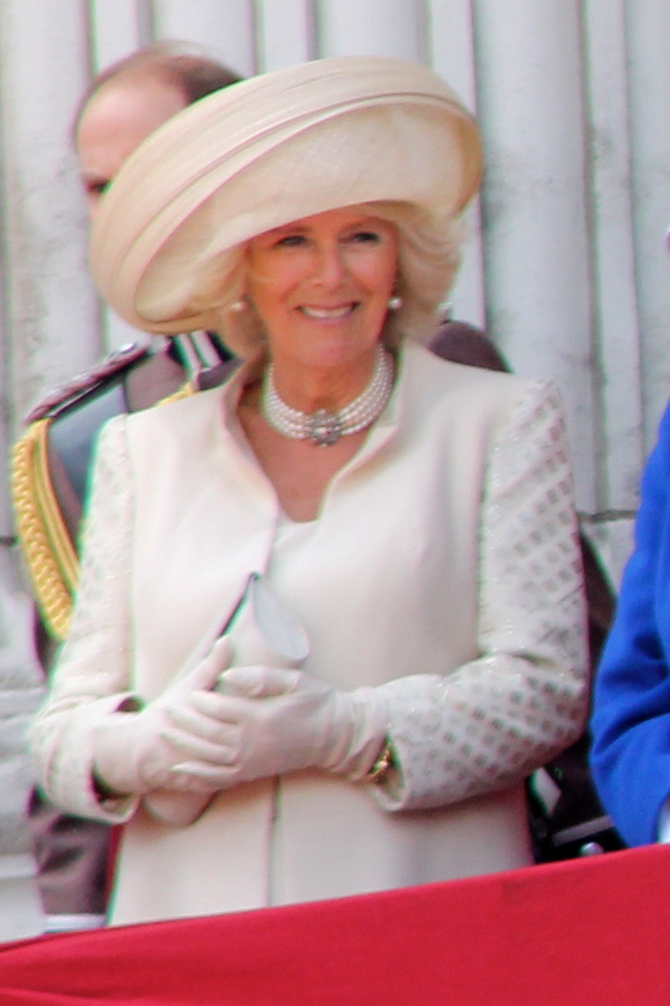 The Duchess of Cornwall, June 2013